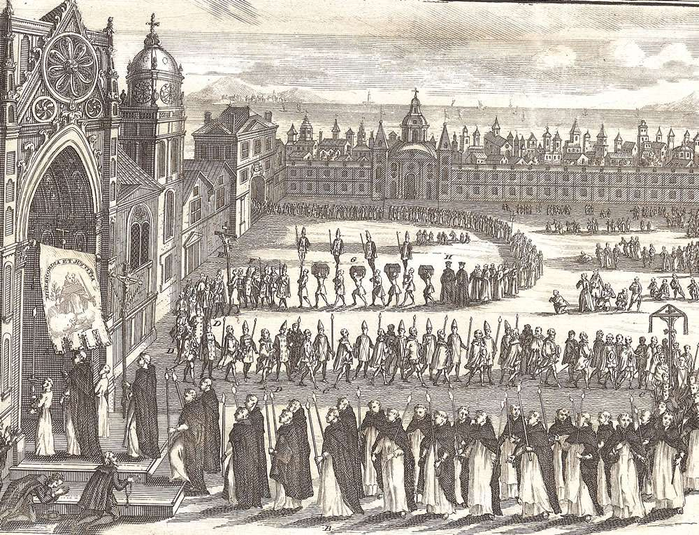 "La Procession de l'INQUISITION a GOA," from 'Ceremonies et Coutumes Religieuses de tous les Peuples do Monde', Paris, 1783; *the whole page*; this engraving was reprinted from Picart